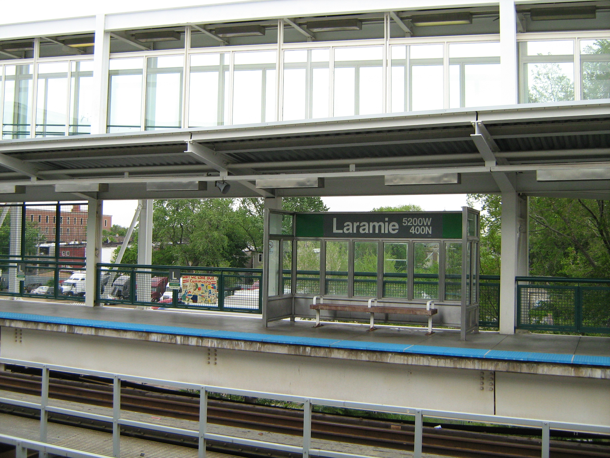 Laramie Avenue and Lake Street (5200W/400N) 5148 W Lake St Chicago, IL 60644 Green Line (Lake Branch)